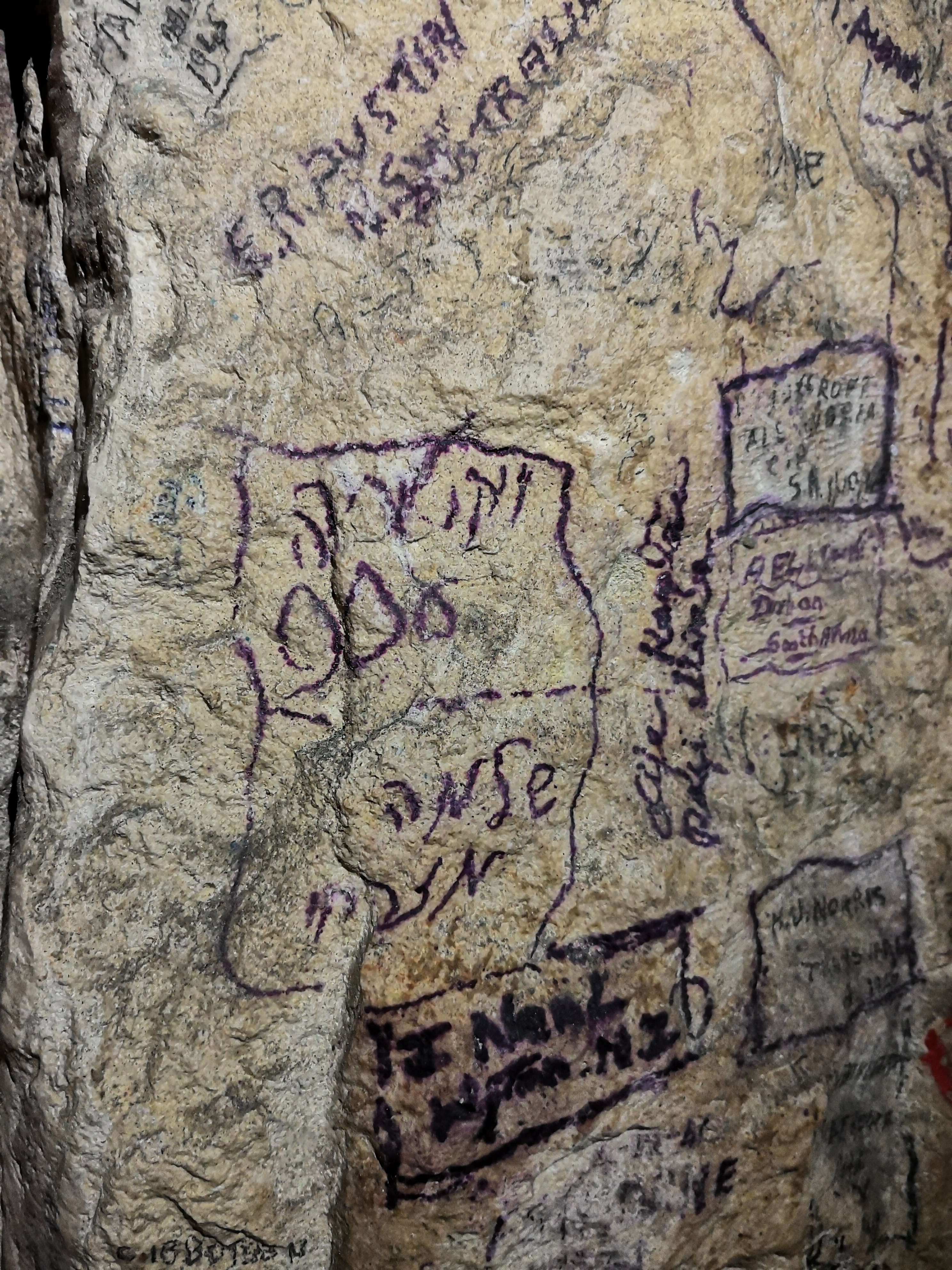 A handwritten on the wall of Zedekiah's Cave